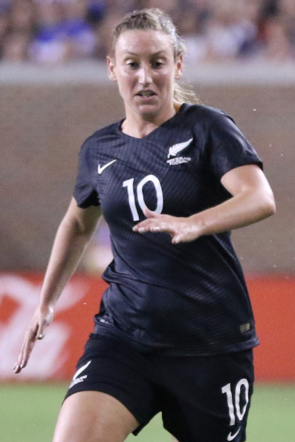 Mallory Pugh